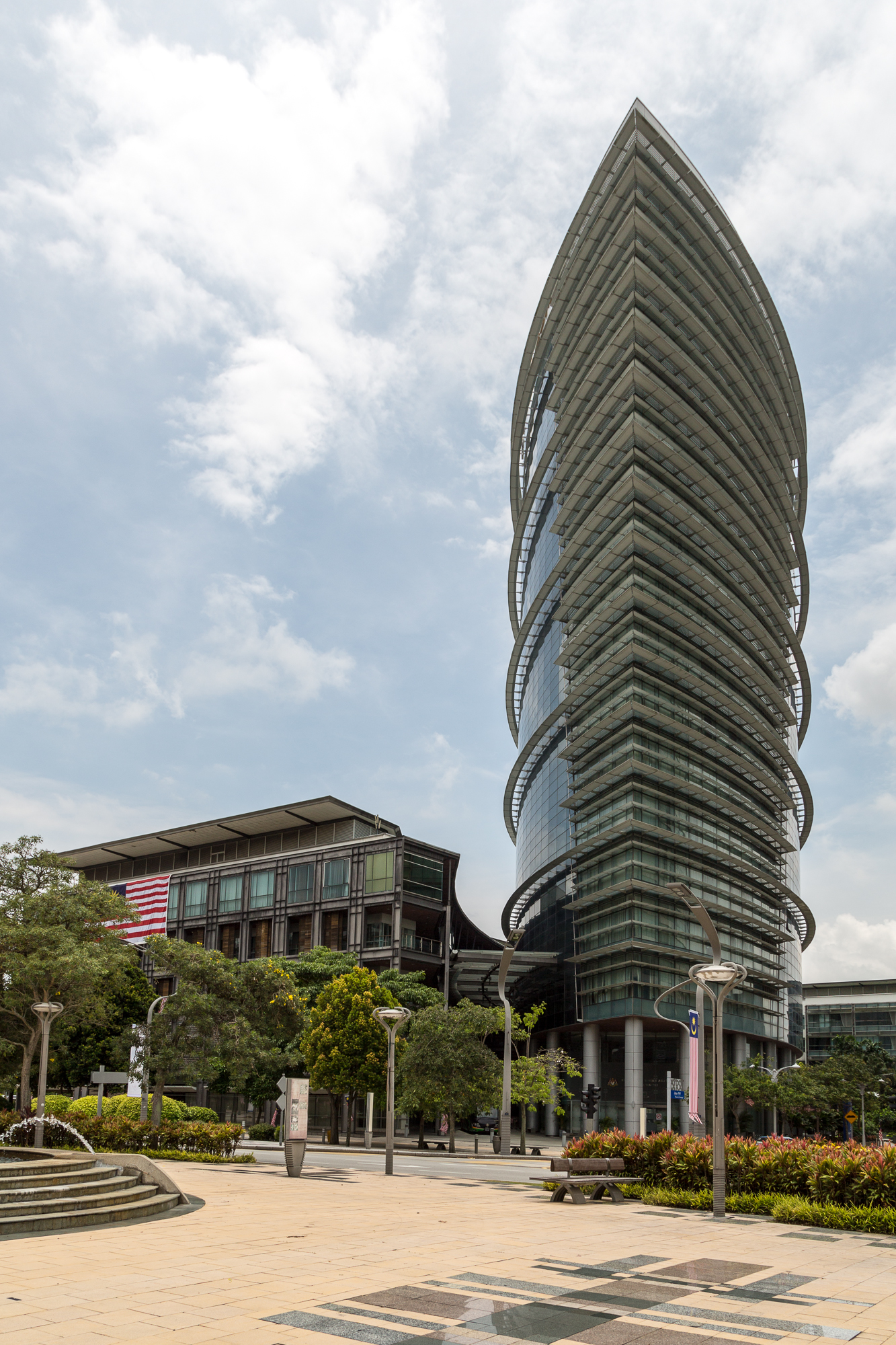 Putrajaya, Malaysia: Kementerian Sumber Asli dan Alam Sekitar (Ministry of Natural Resources and Environment; NRE)